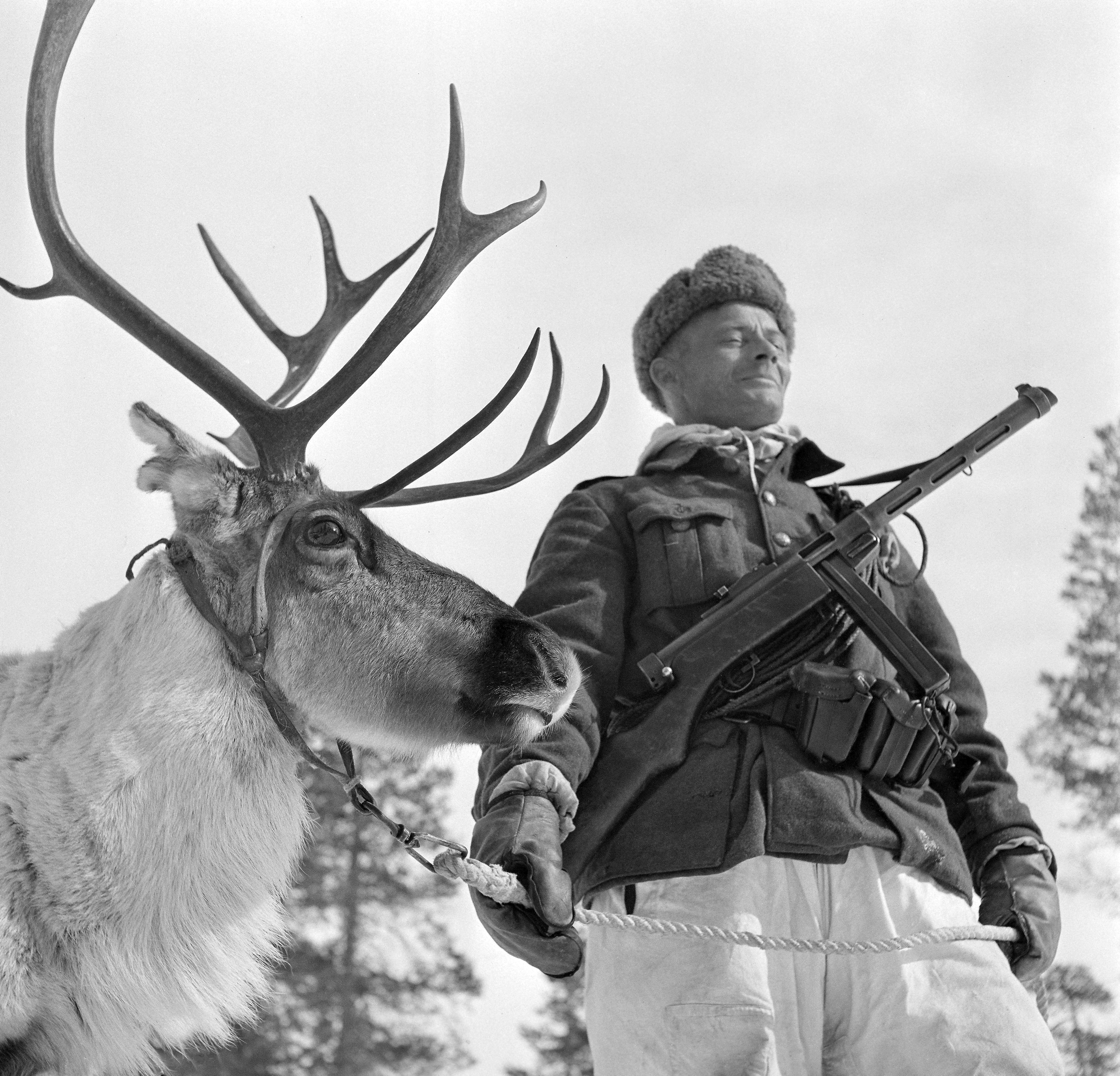 Warriors of Lapland (translation by Manelolo)